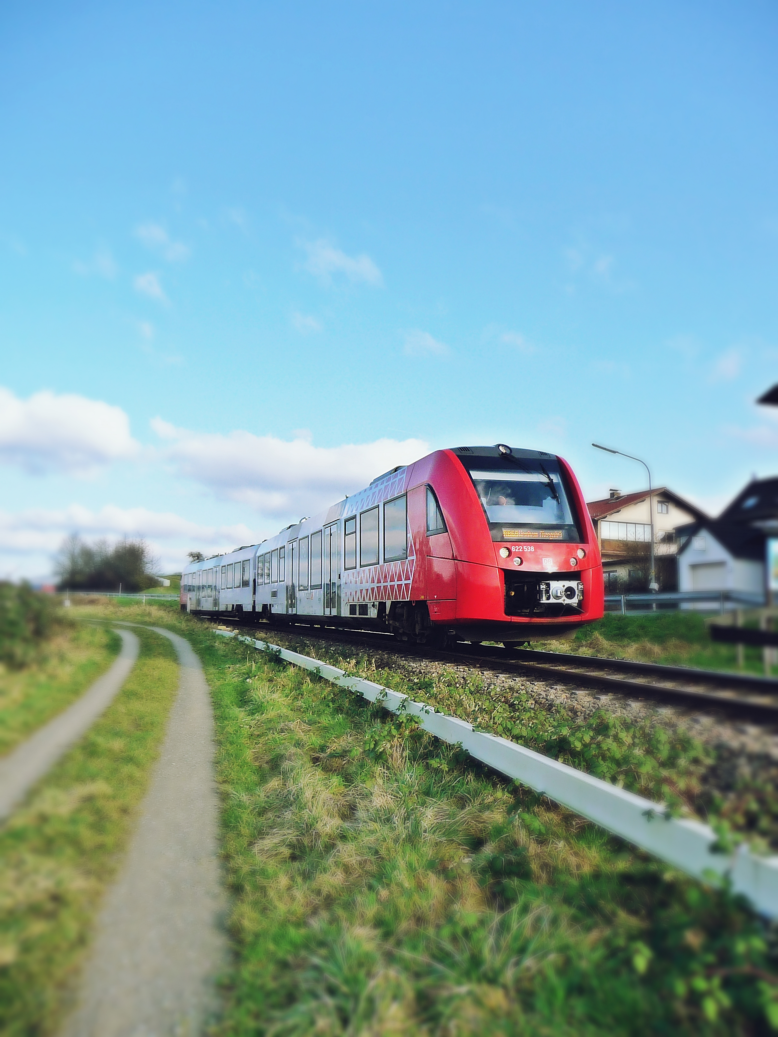 LINT DMU on its way from Fuerth to Weinheim.